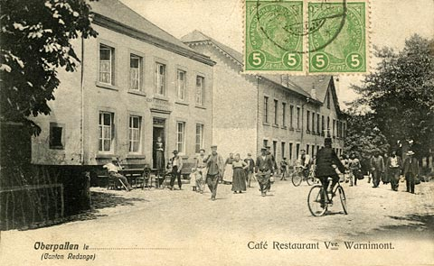 Oberpallen (Grand Duchy of Luxembourg) - Postcard